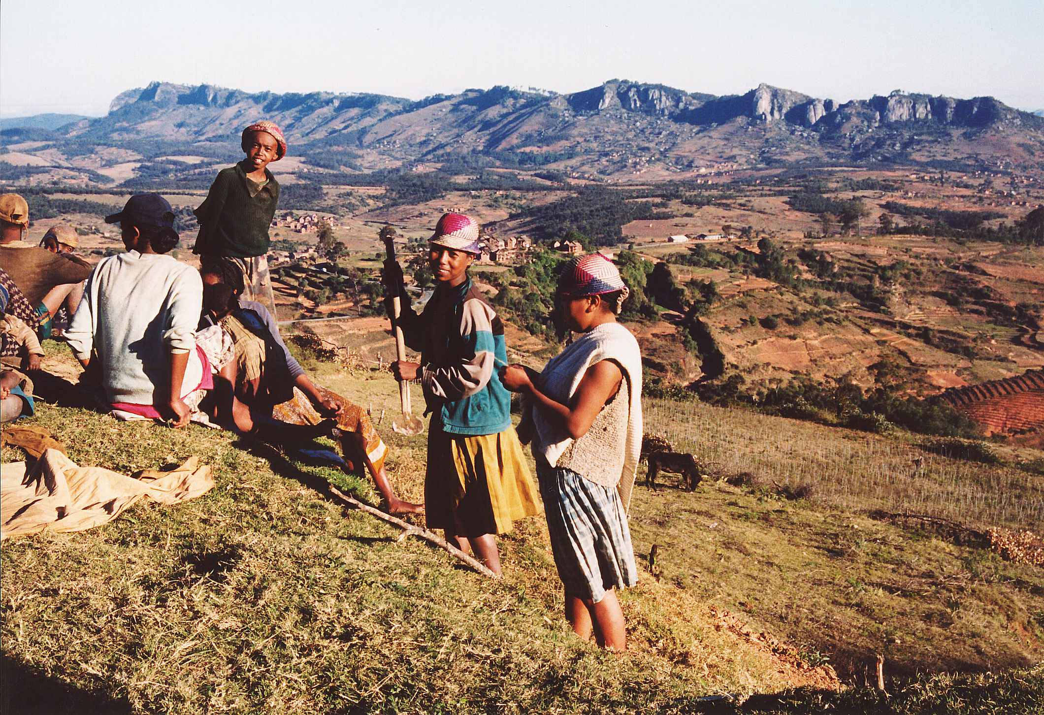 People in the Fiaranantsoa Province, Madagascar